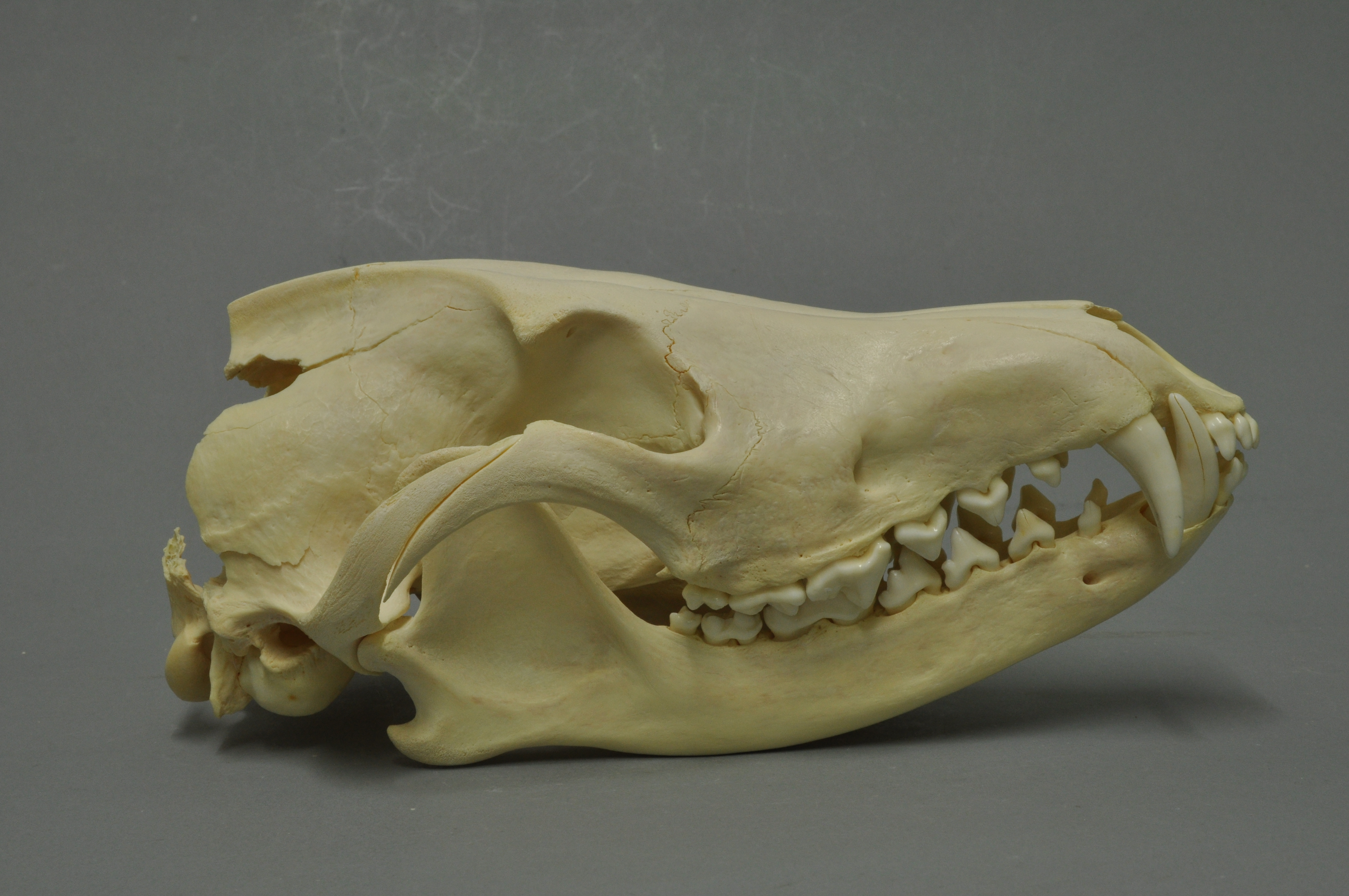 Maned wolf Chrysocyon brachyurus, skull, Coll. Museum Wiesbaden